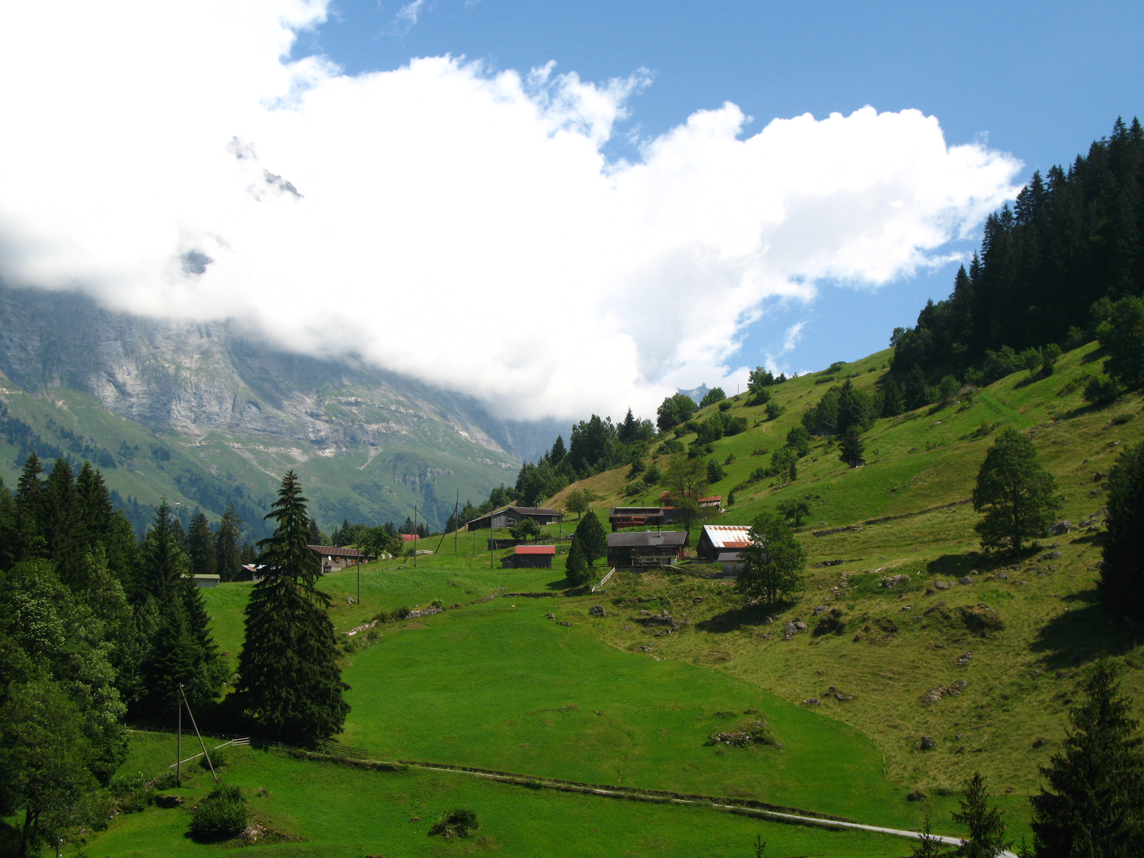 View from the Trift cable car, Gadmen, Switzerland